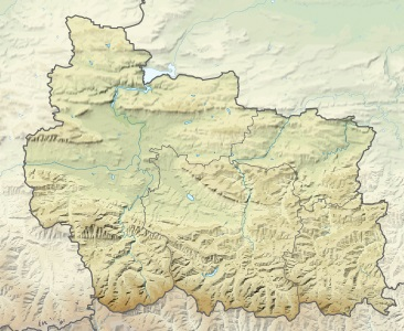 Relief Location map Gabrovo Province, Bulgaria. Geographic limits of the map